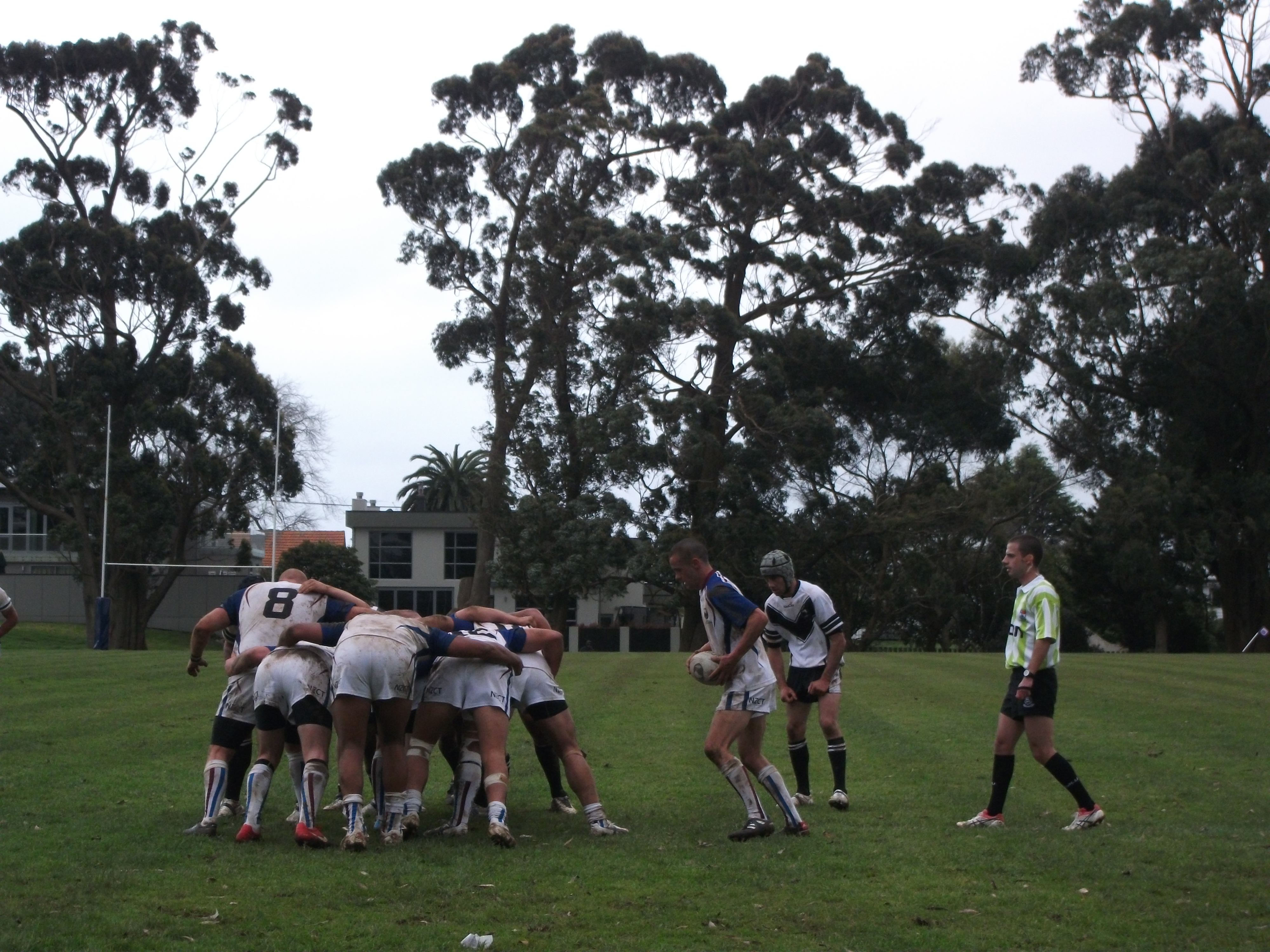 A scrum in the Auckland Zone rugby league team vs the South Island rugby league team at Cornwall Park Stadium on 25 September 2010.